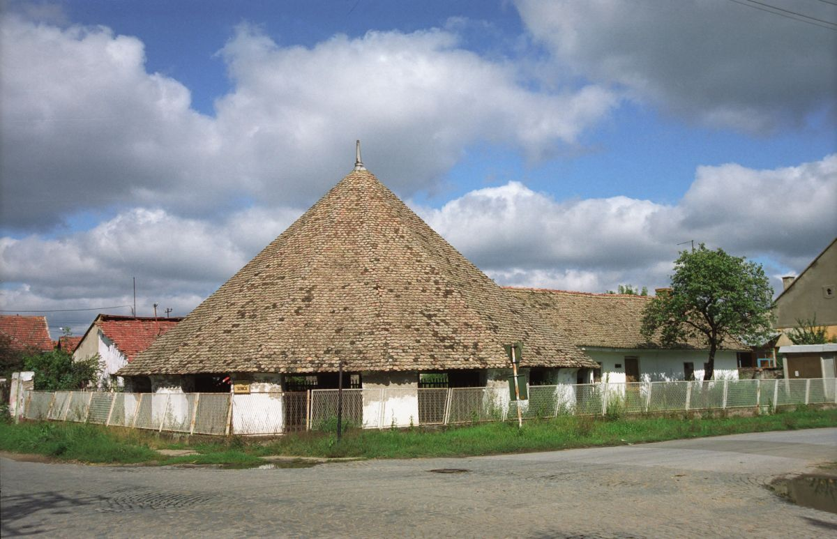 Suvača, one of two remaining horse-powered dry mill in the whole of Pannonia, Kikinda, Serbia